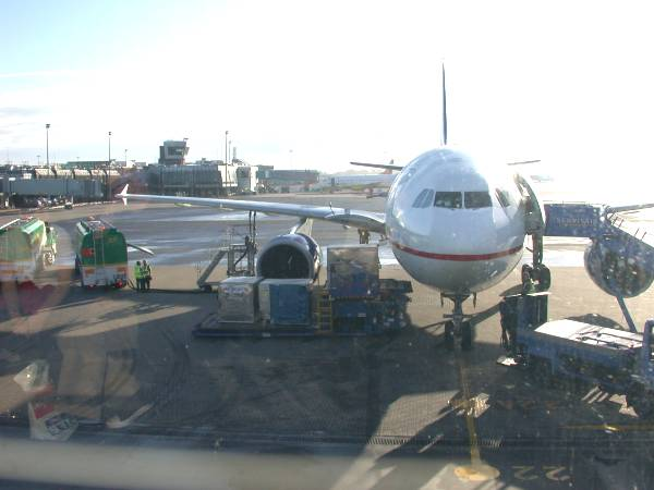 An Air Transat A310 at Belfast International Airport